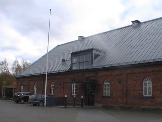 The studios of Villilä at Nakkila, Finland. They are known commonly as Finland's Hollywood and there has been filmed the scenes of many well known Finnish movies, such as FC Venus and V2: Frozen Angel.